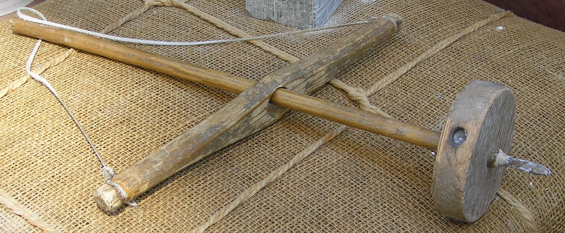 Bow drill Pump drill. Photo taken in Quebec City, Quebec, Canada